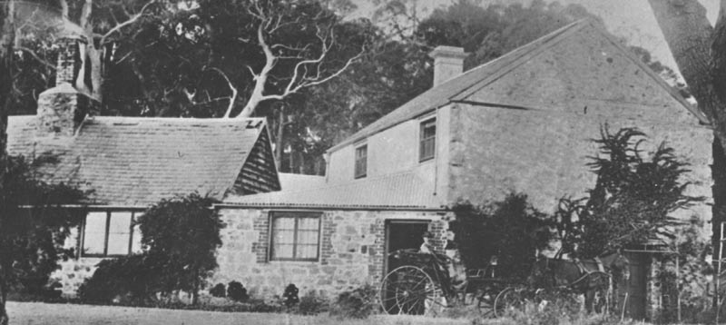 The Old Farm, Strawberry Hill was considered old more than 100 years ago. As far back as 1890 it was given the name The Old Farm, in recognition of being the oldest farm in Western Australia, established even before the Swan River Colony. A Government Farm was established at Strawberry Hill in 1827 as part of the first European settlement at King George Sound. In 1833, Sir Richard Spencer was appointed Government Resident at Albany. He purchased the Government Farm and resided there with his wife Ann, seven sons and three daughters. They lived in a pise cottage until, in 1836, the current two-storey stone house was built adjoining the older home. By 1836 the well established gardens were producing blood oranges, grapes, raspberries, gooseberries, asparagus, figs and almonds. The new house was the centre of the districtís social life. After an ongoing cycle of neglect, restoration, and neglect, the property was purchased by the Government in 1956 as an historic monument. Transferred to the National Trust in 1964, the house and garden have been restored to appropriately reflect their significance.